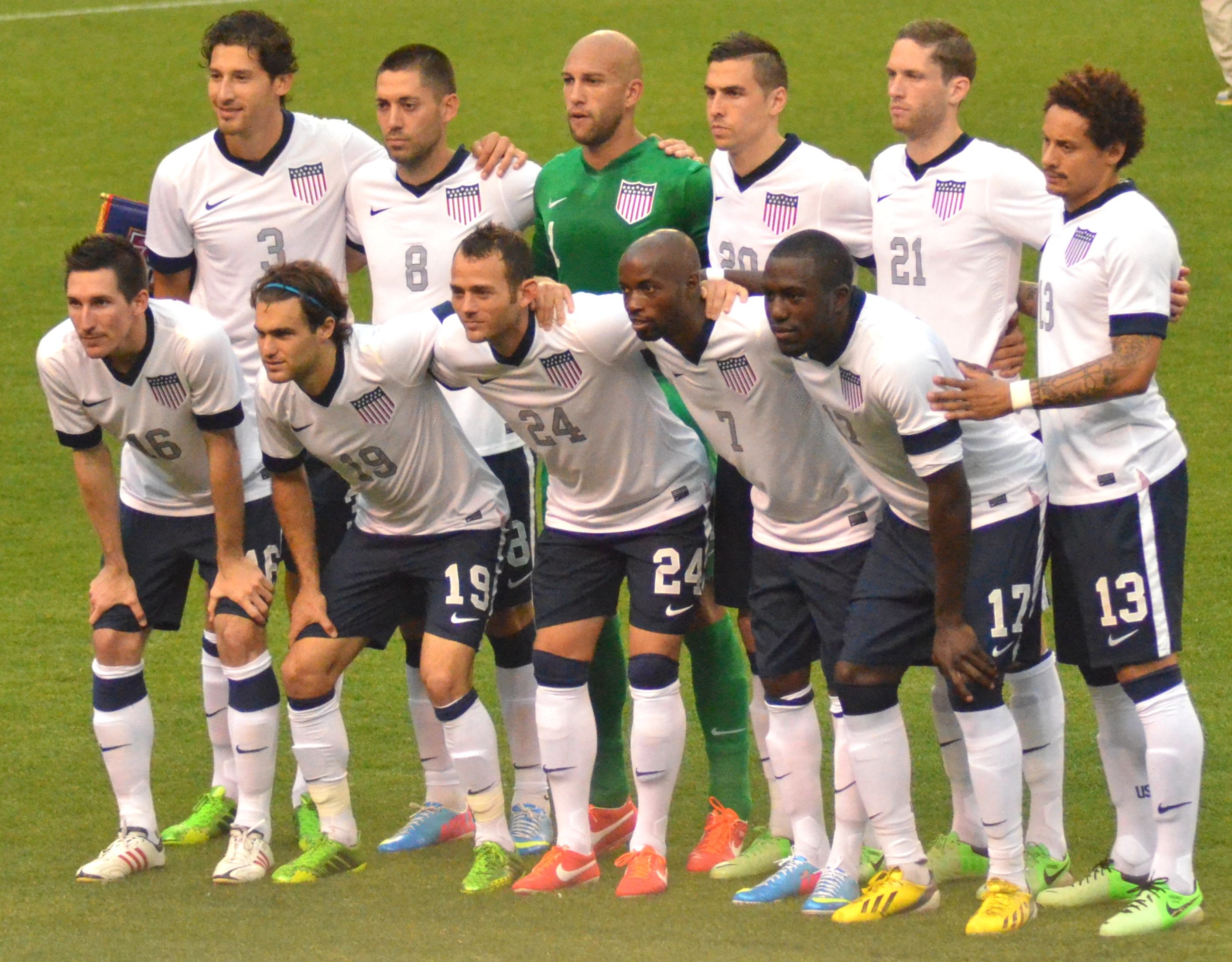 FirstEnergy Stadium Home of the Cleveland Browns